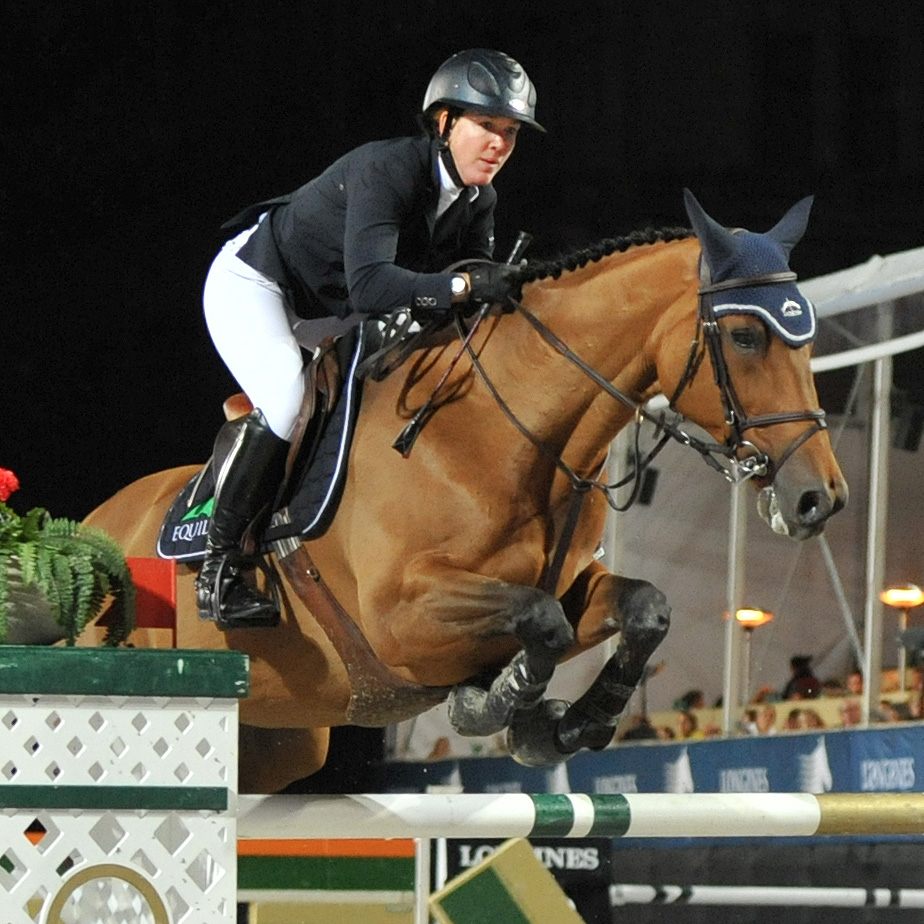 Vienna Masters am 21. September 2013 Longines Global Champions Tour Lauren Hough (USA) auf Quick Study